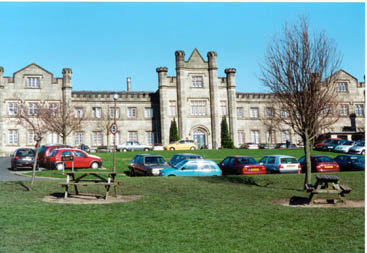 Public Domain taken by myself